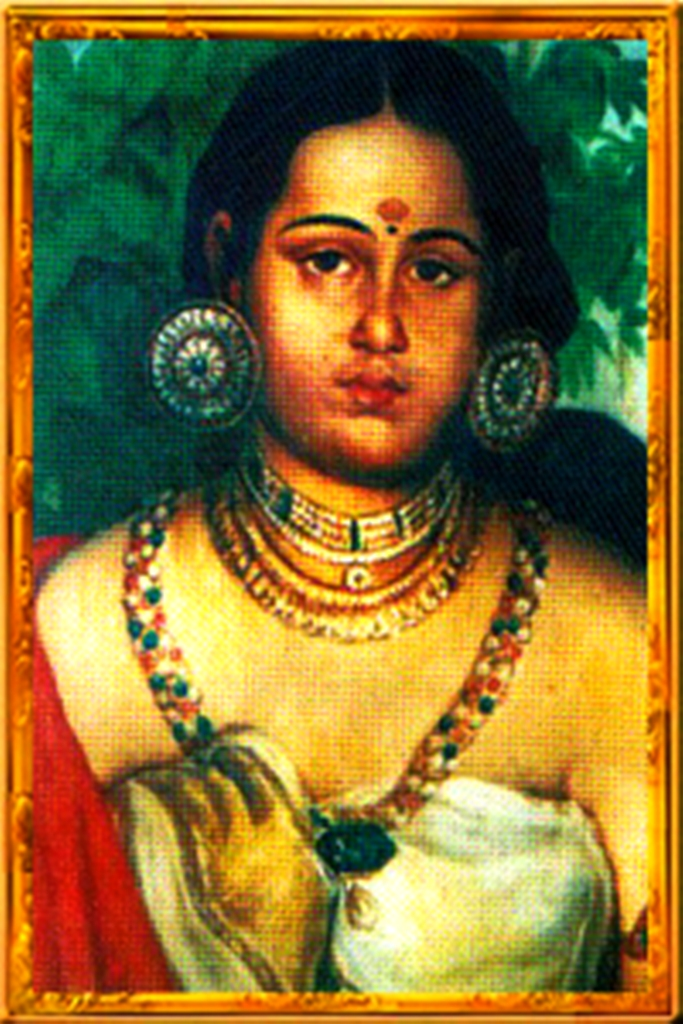 This is the portrait of the Regent Maharani Gowri Parvathi bayi of Travancore.